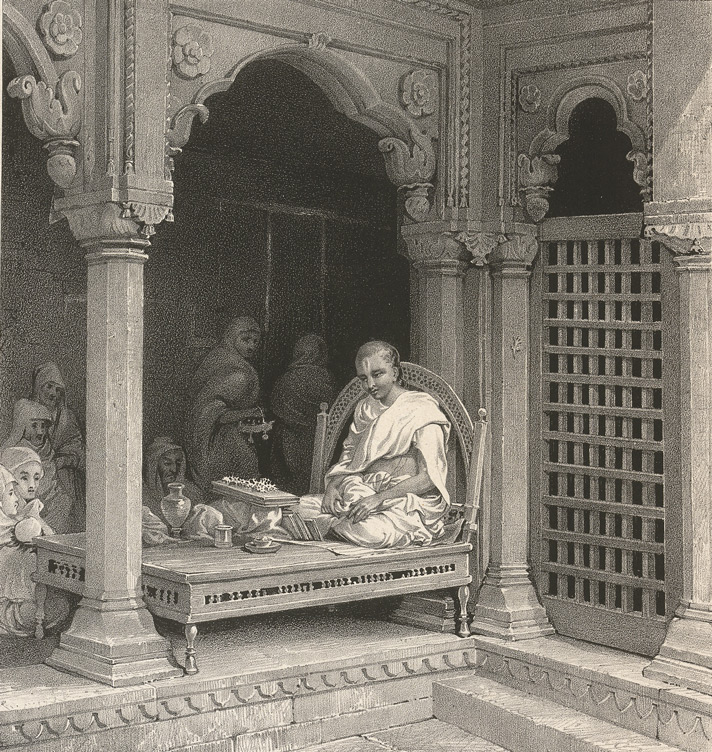 "A Preacher Expounding The Poorans. In The Temple of Unn Poorna, Benares," lithograph, 1832, Illustration by the scholar and orientalist James Prinsep, courtesy of the British Library.